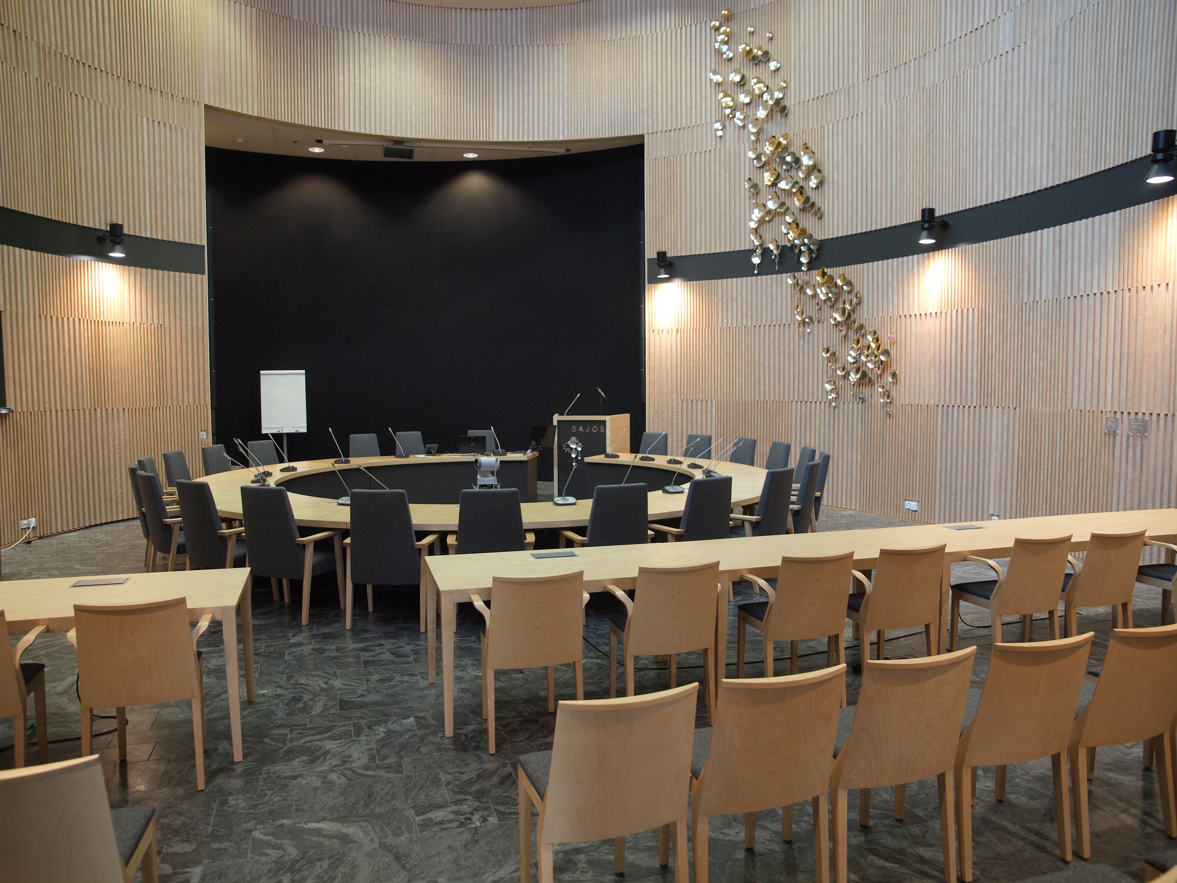 The main debating hall of the Sami Parliament in the cultural centre Sajos in northern Lapland, Finland.